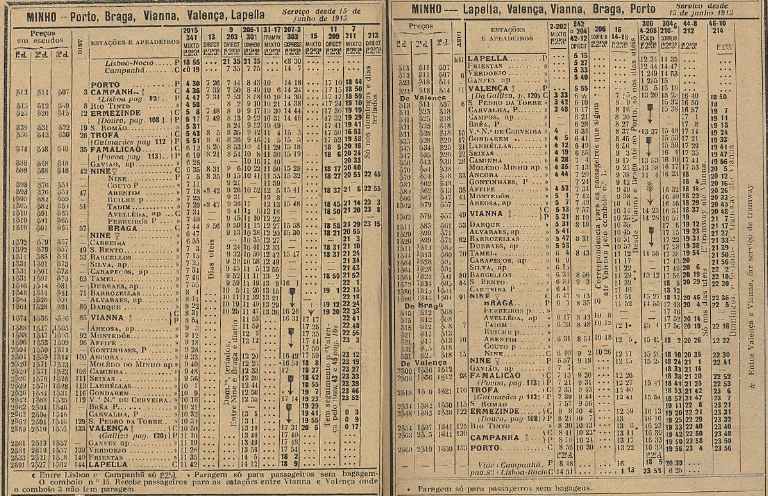 Timetable of the Linha do Minho (Minho Railway) and its Ramal de Braga (Braga branch line), in Portugal, on the 15th June 1913. This image was published on the Guia Official dos Caminhos de Ferro de Portugal No. 168, of October 1913, and scanned by the Biblioteca Nacional de Portugal.